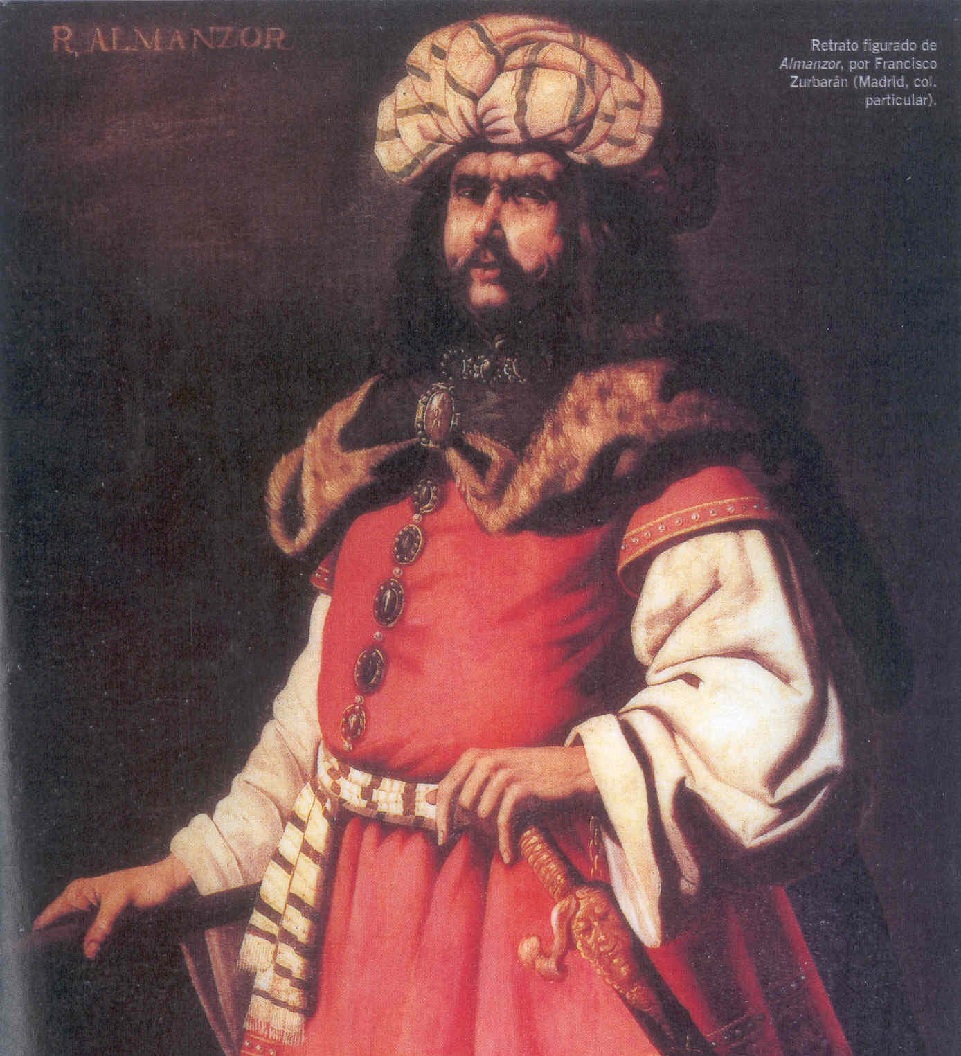 Portrait of Ahmad al-Mansur (1549-1603)